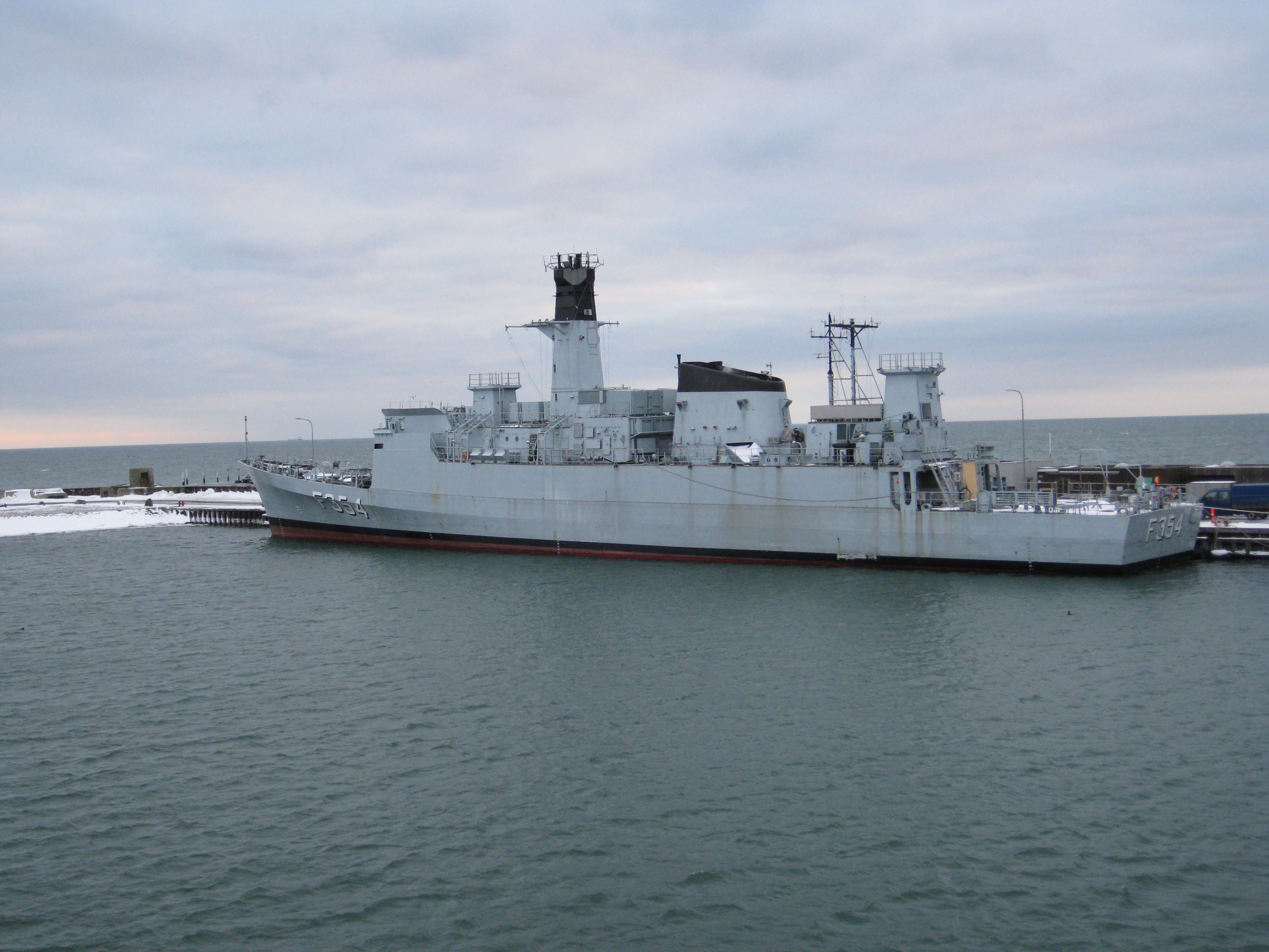 Danish corvette Niels Juel after the removal of equipment and awaiting scrapping.